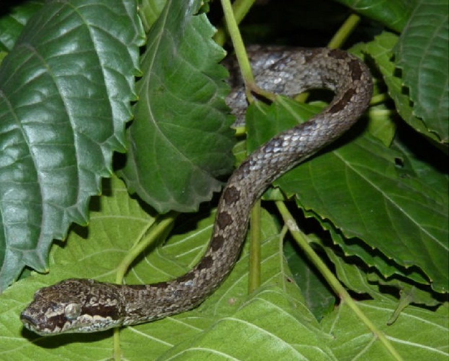 Lycodryas maculatus (Günther, 1858) male from Anjouan (ZSM 38/2010)